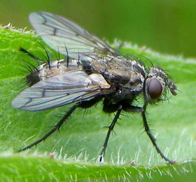 A female Ramonda spathulata (Diptera: Tachinidae). ID suggested by Chris Raper and Erikas 'neprisikiski' here